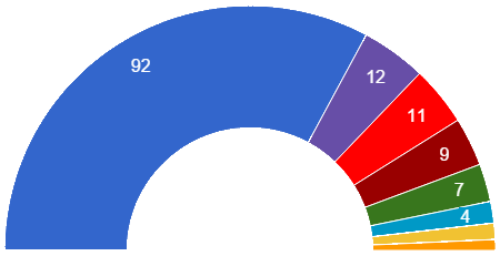 Вибори до Дніпропетровської обласної ради 2010